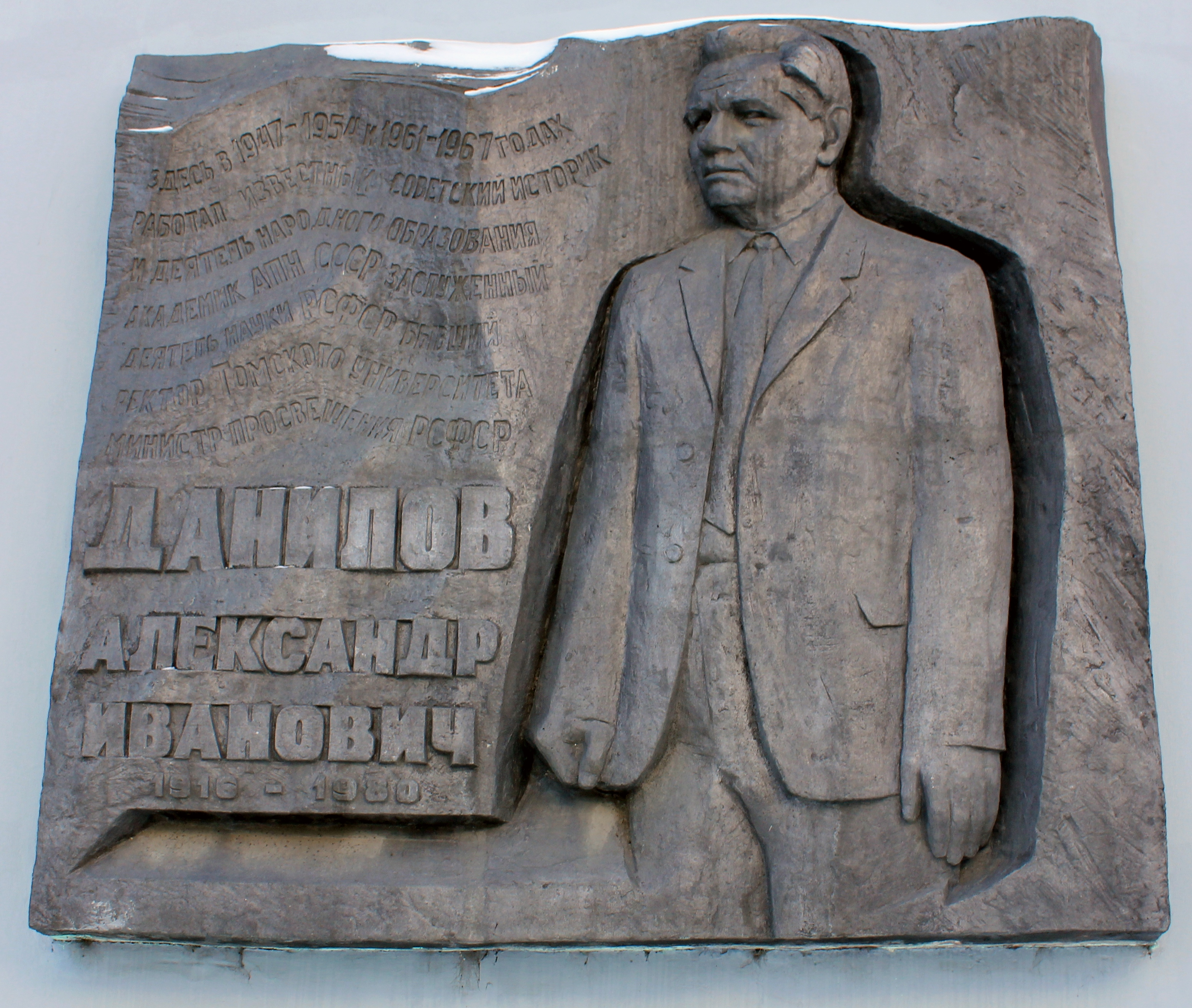 Мемориальная доска памяти А. И. Данилова. 3 корпус Томского государственного университета